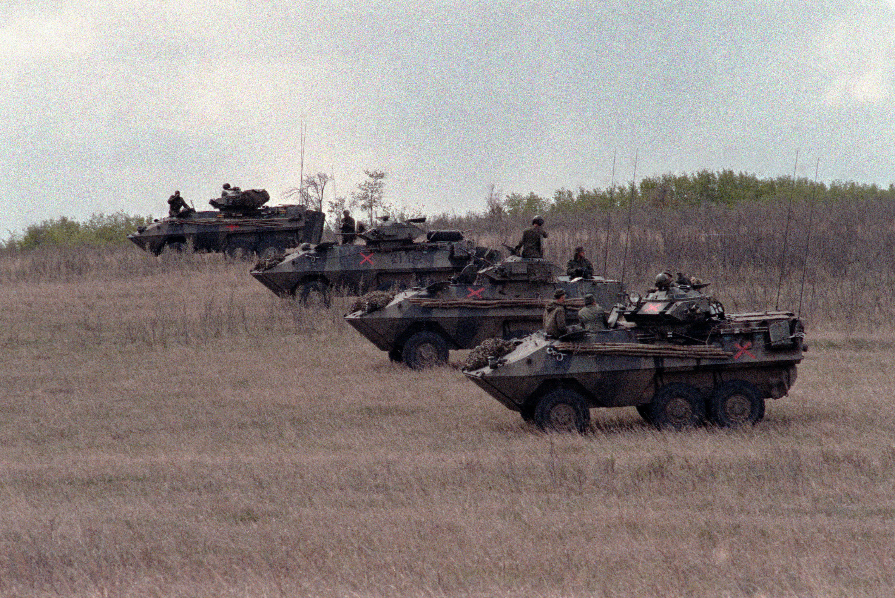 Four Canadian army Grizzly wheeled armored personnel carriers line up in an attack formation during the combined United States/Canadian NATO exercise RENDEZVOUS '83.